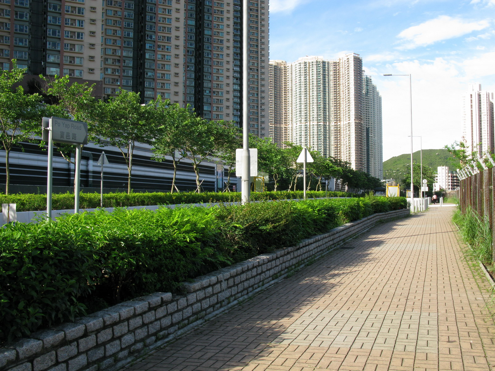 Po Yap Road, Tseung Kwan O